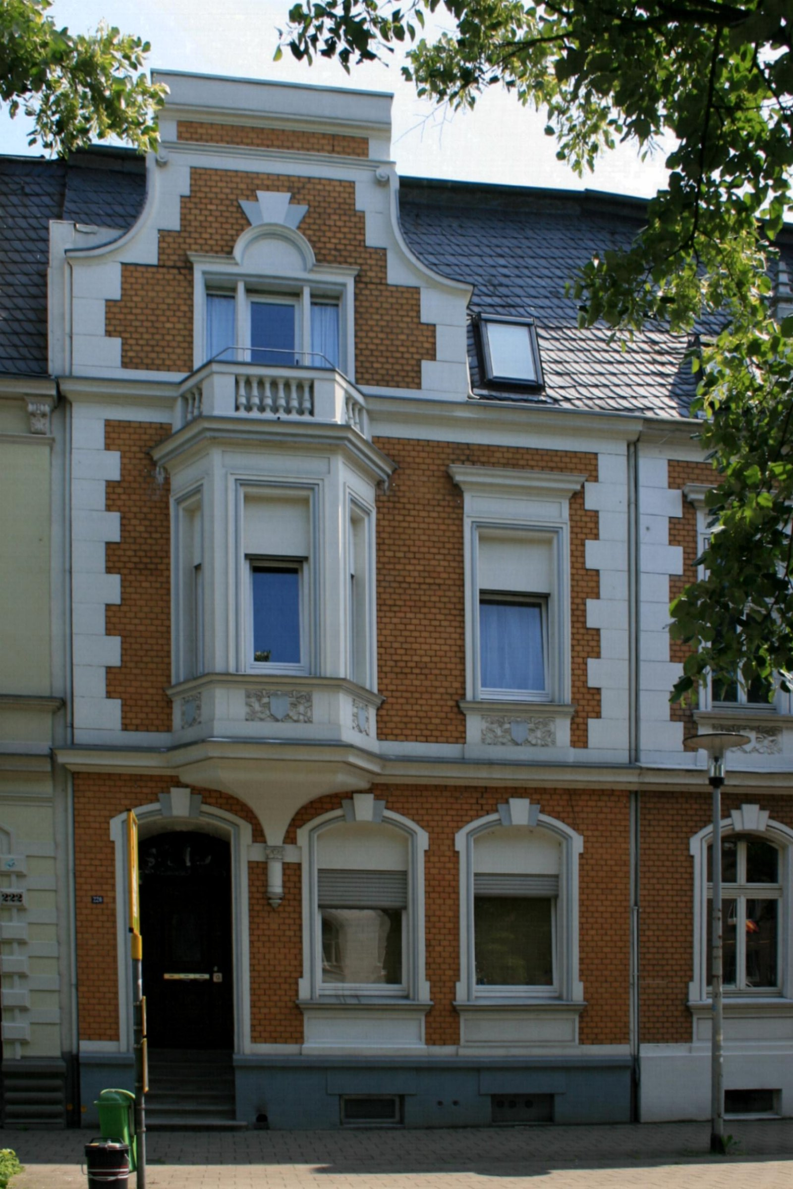 Cultural heritage monument No. B 108 in Mönchengladbach